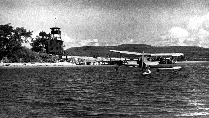 A U.S. Navy SOC Seagull floatplane at Havannah Harbour, Efate.